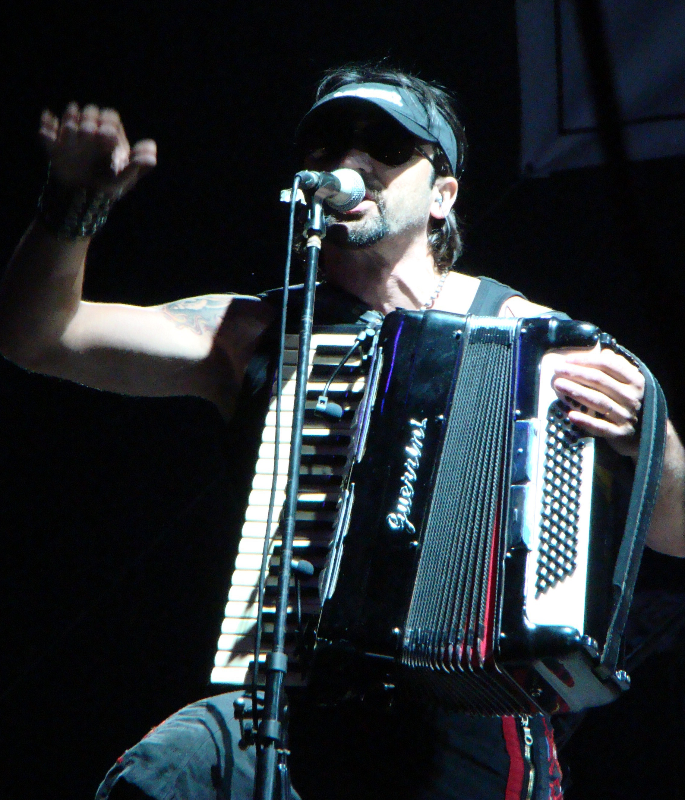 Ivan Lenjo, accordionist of the band "Haydamaky" (during the Pidkamin festival 2011).